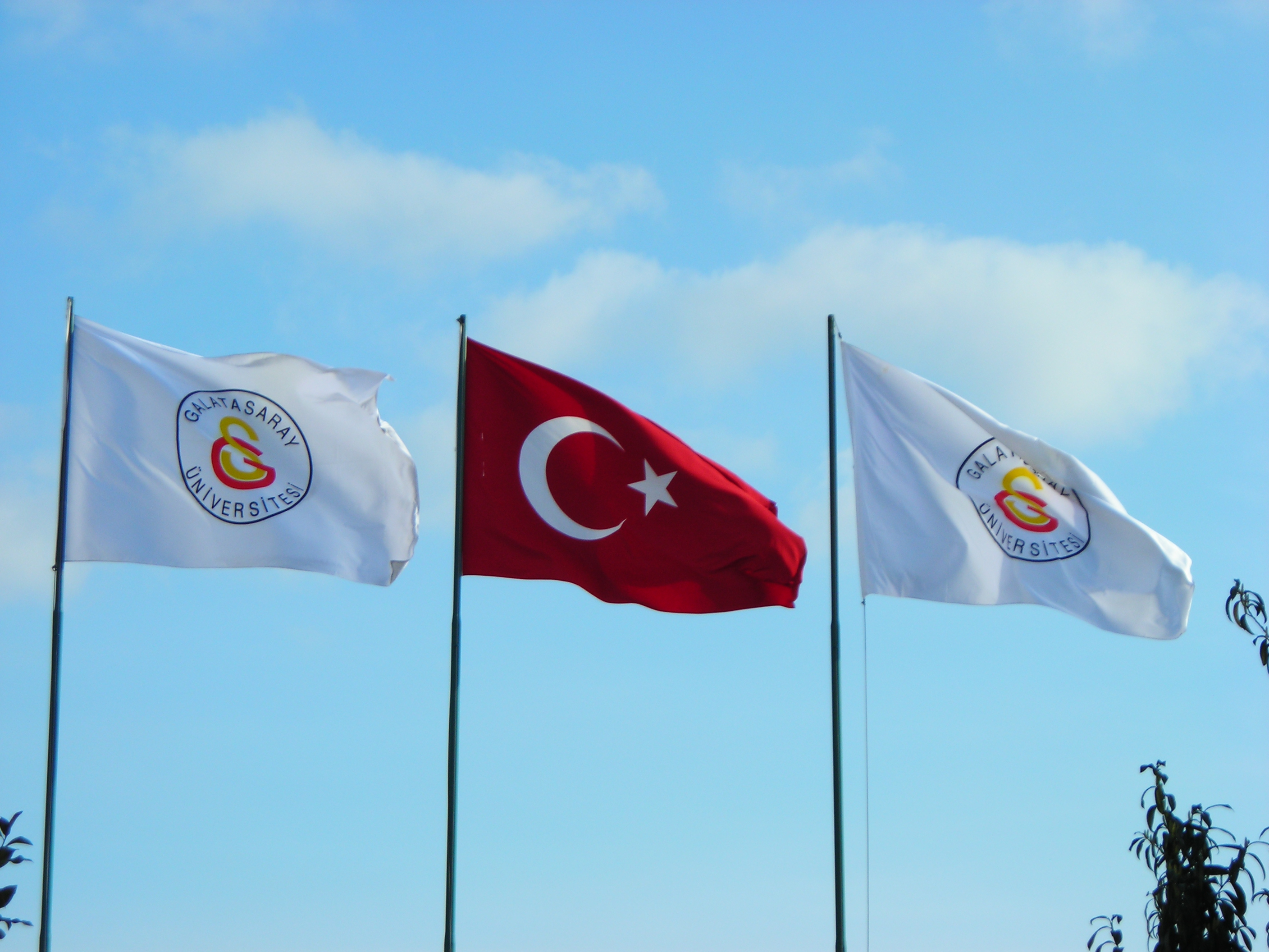 Galatasaray University